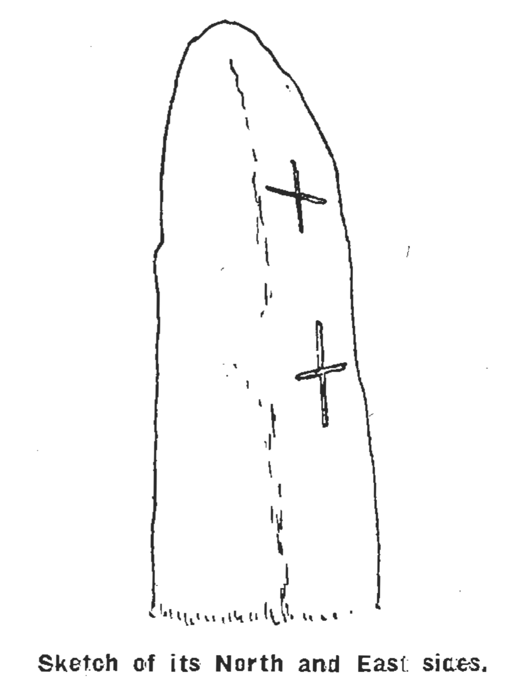 Sketch of its North and East sides